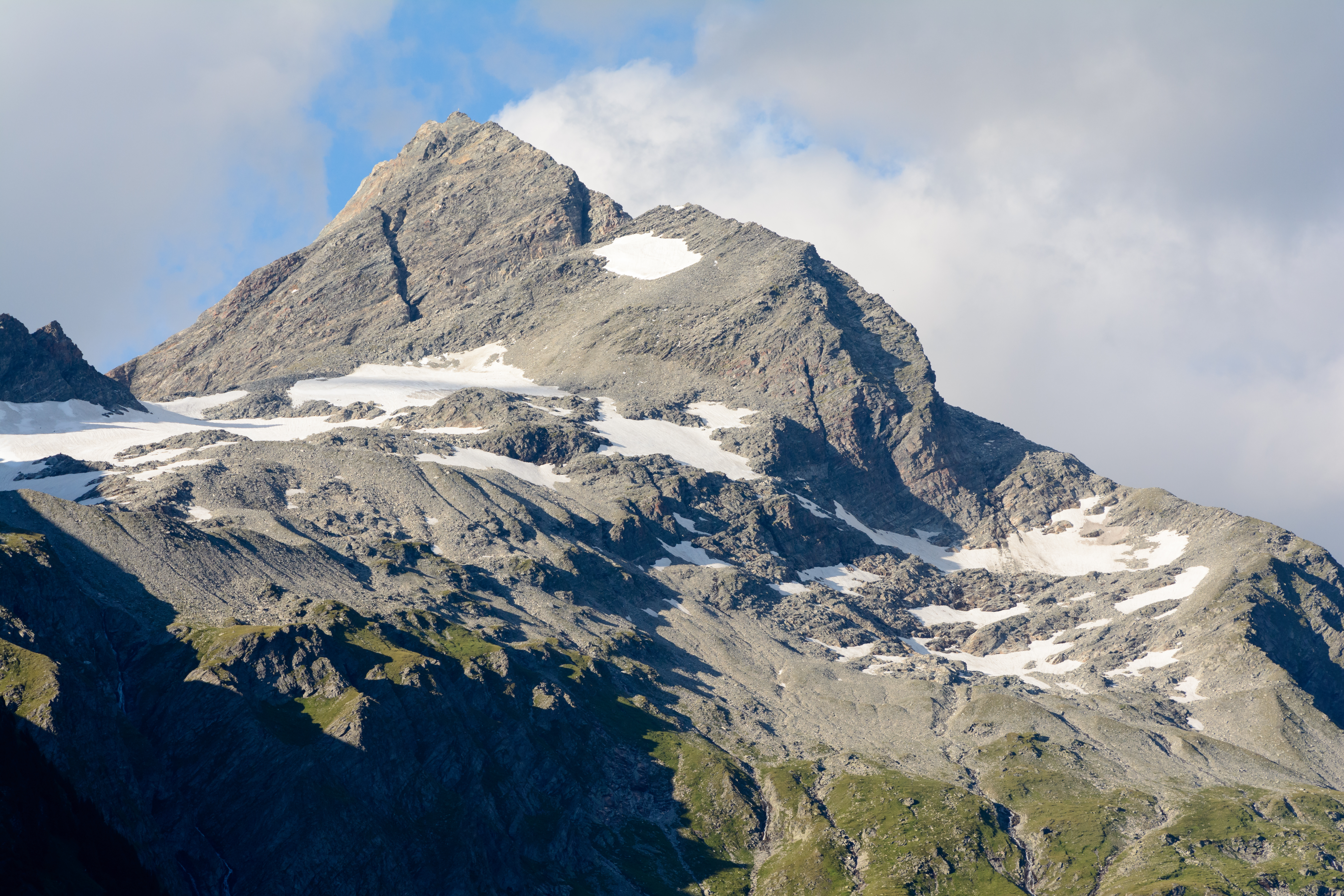 Ankogel (3,252 metres (10,669 ft)) in the High Tauern National Park from Seebach Valley near Mallnitz, Carinthia, Austria